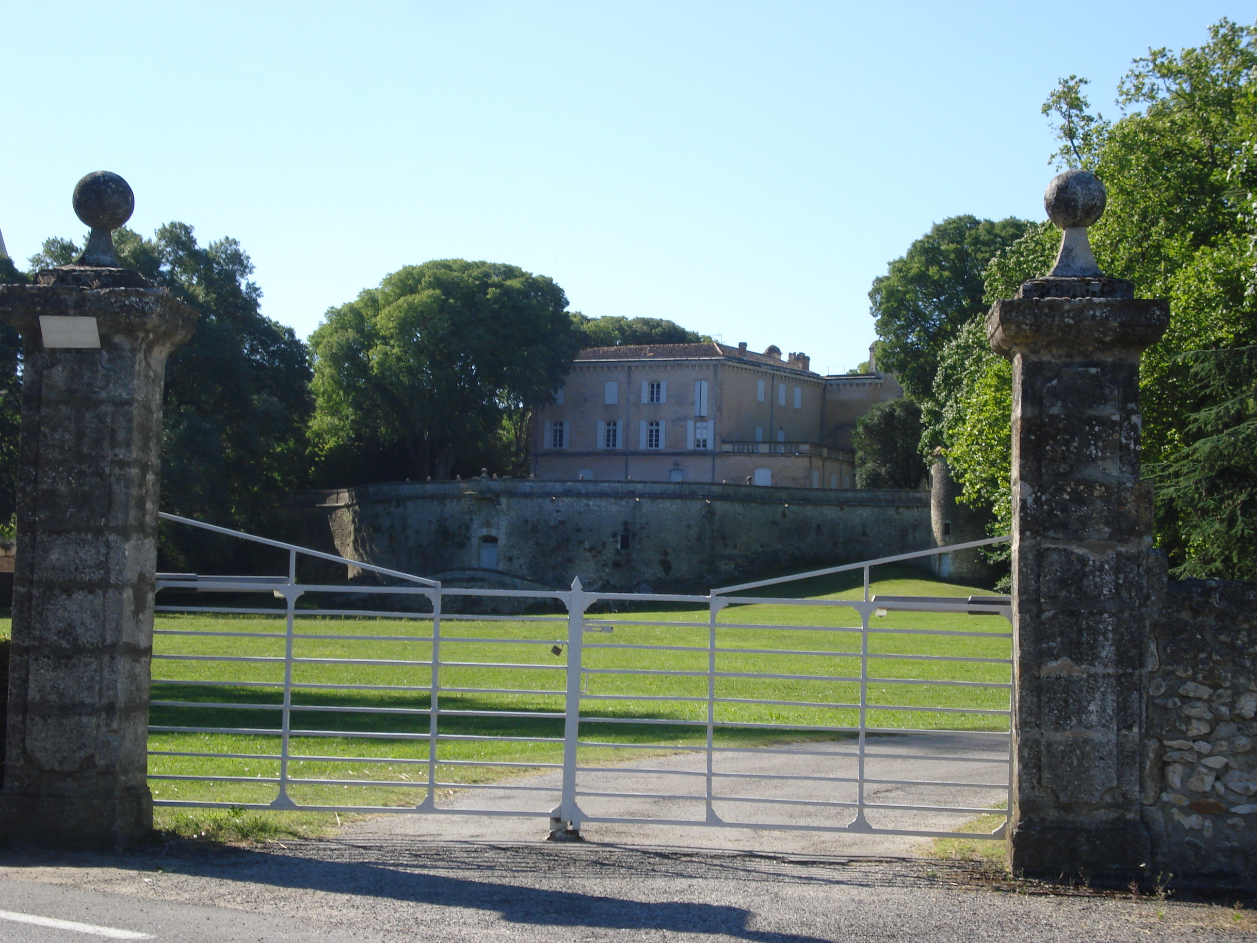 castle at Dions (Gard, Fr)